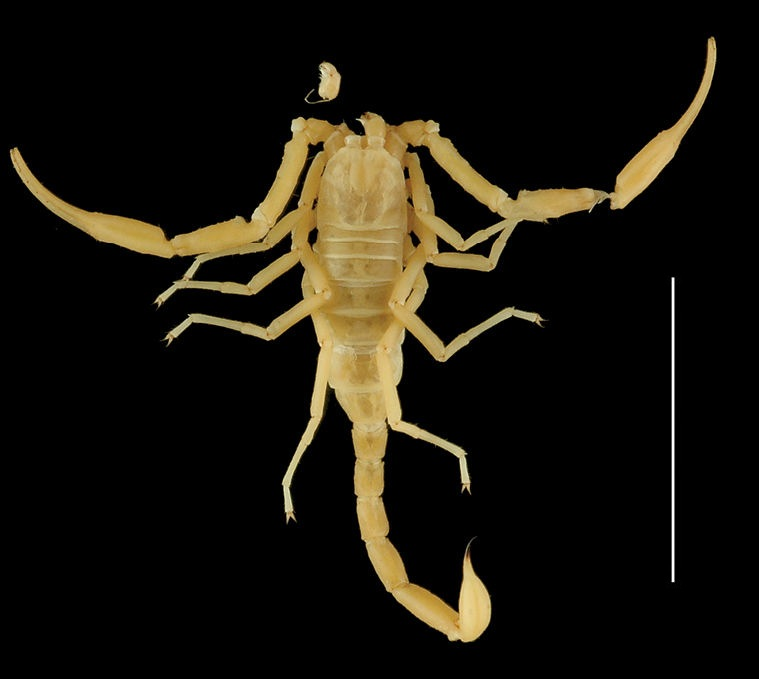 Vietbocap canhi male holotype, ventral aspect. Scale bar = 10 mm.